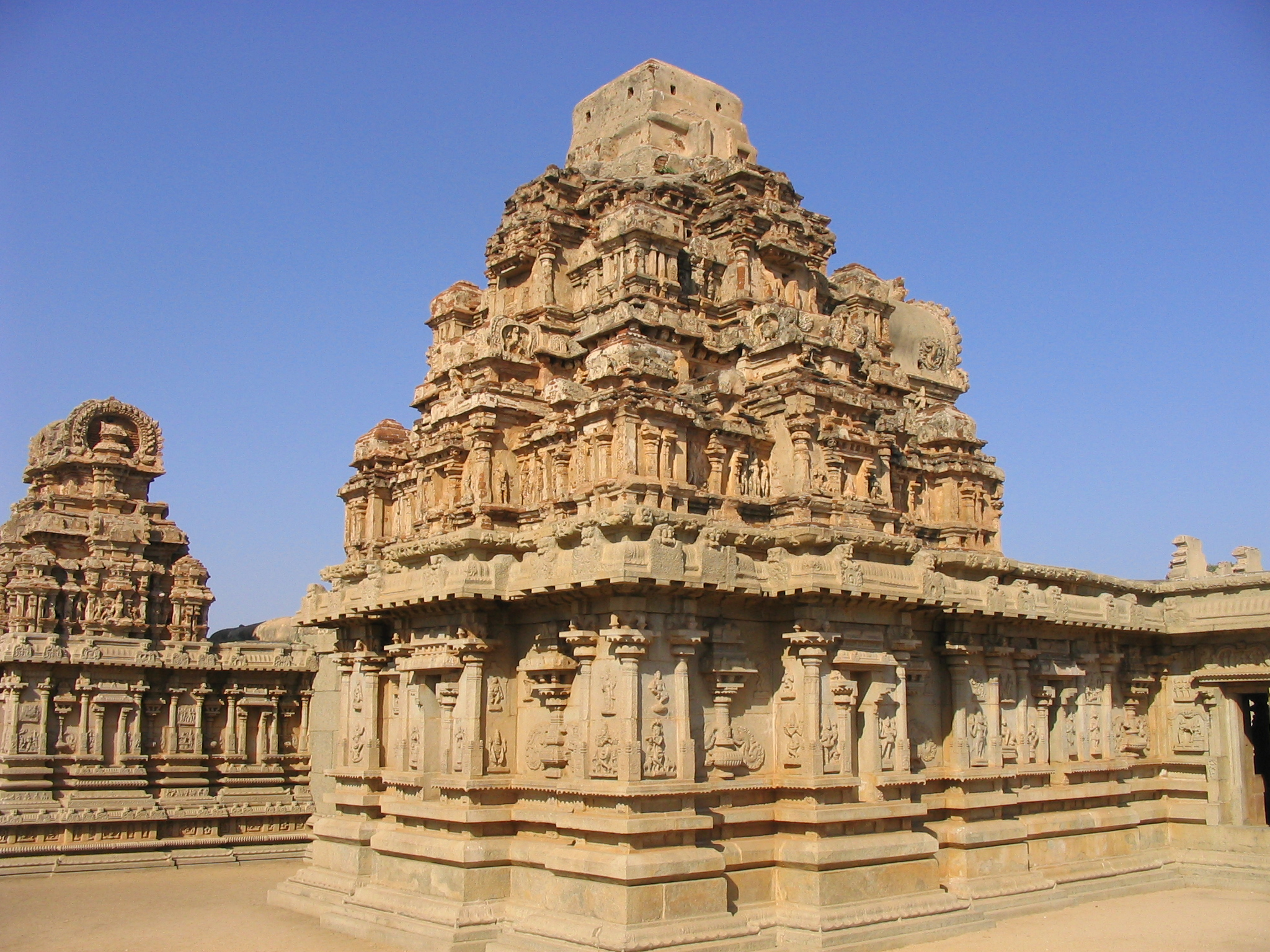 Vittala-Temple, Hampi, Vijananagar (Karnataka, India)